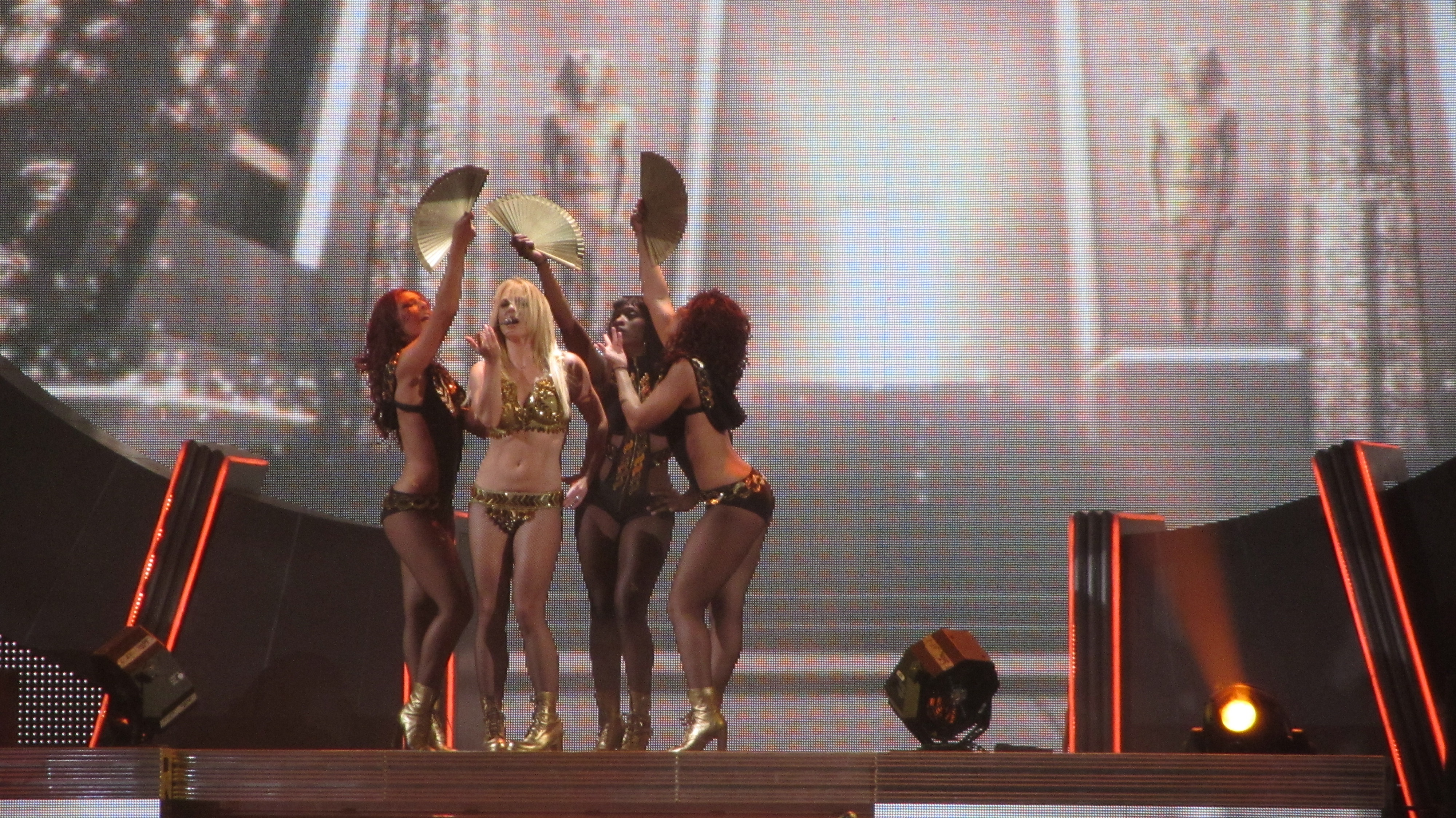 Britney Spears Femme Fatale Concert in Toronto